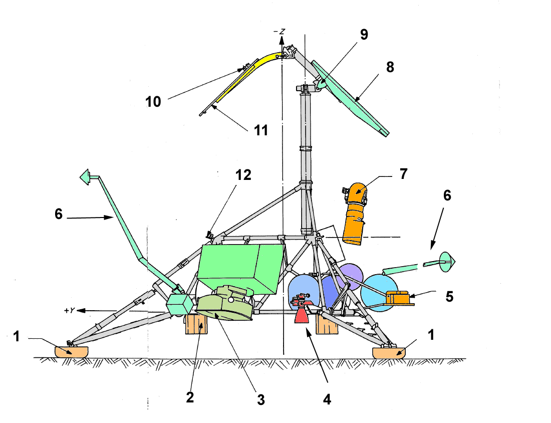 Surveyor spacecraft Postlanding configuration : 1 Leg ; 2 Crushable bloc ; 3 : Altimeter/veocity sensing antenna ; 4 : Vernier thruster ; 5 : Alpha scattering instrument sensor head ; 6 : Omniantenna ; 7 : TV Camera ; 8 : Planar array antenna ; 9 : Antenna and solar panel positioner ; 10 Array solar sensor ; 11 Solar Panel ; 12 Landing gear release mechanism (3 places)